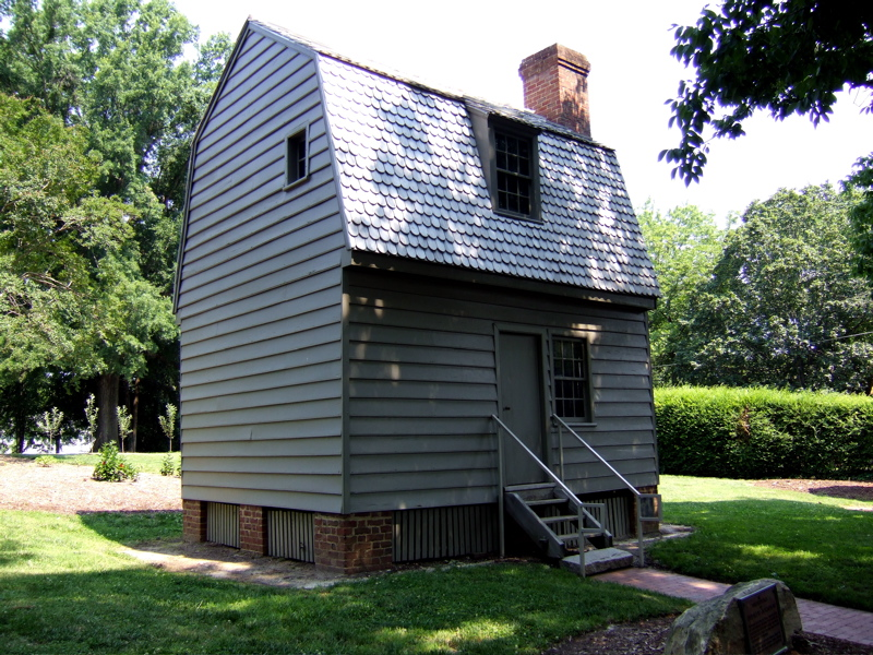 The birthplace and first home of former Unites States president Andrew Johnson. Photographed by Michael Helms on June 18, 2006.